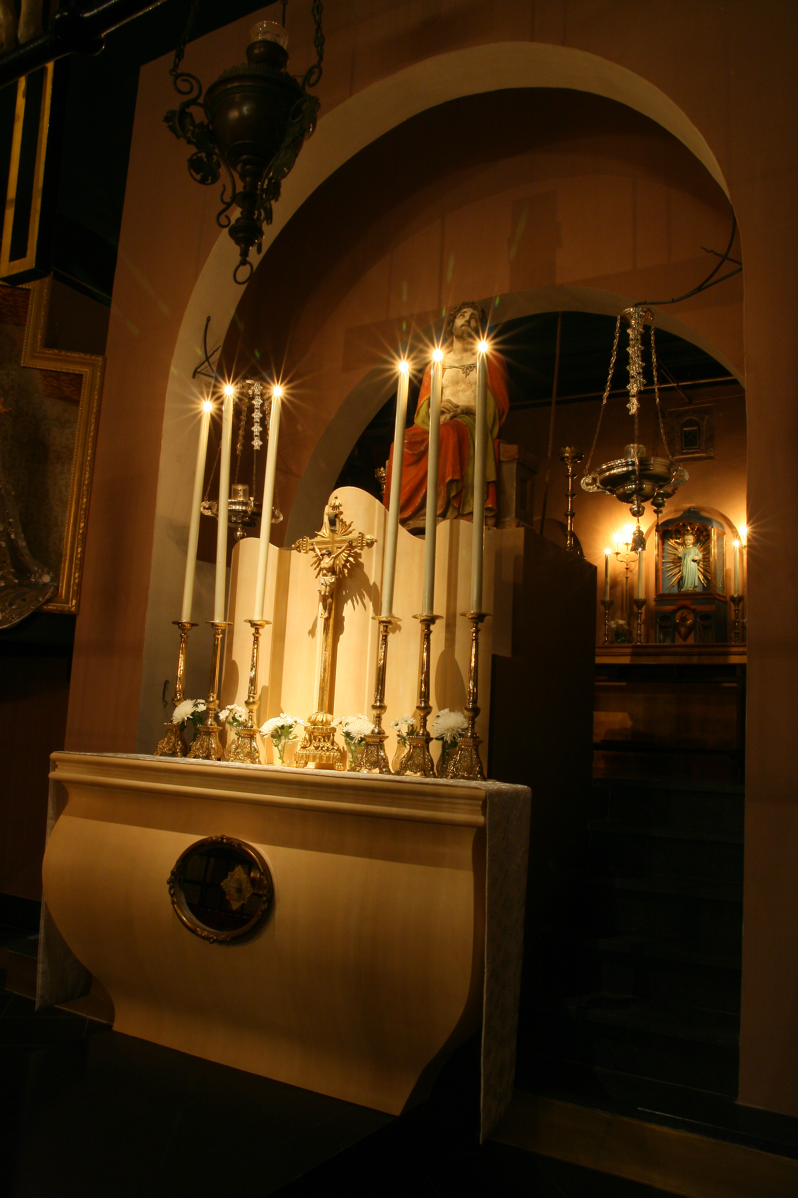 Image of the altar of the holy cross in the hermitage church of Warfhuizen in the Netherlands. Made and uploaded by friar Hugo